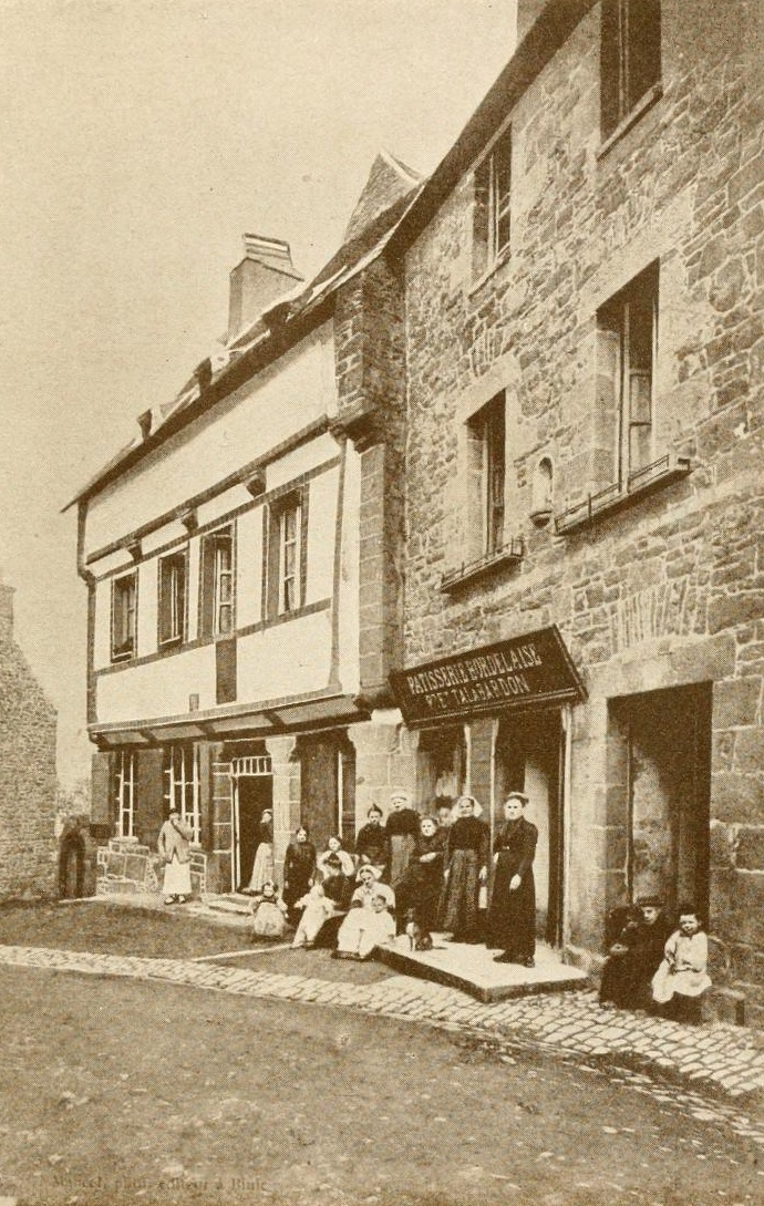 Ernest Renan's Birthplace at Tréguier